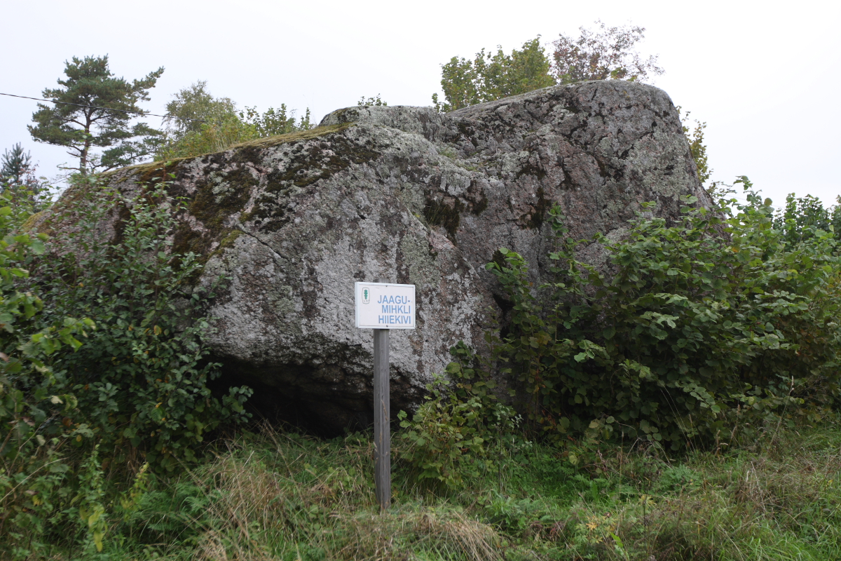 Mihkli-Jaagu stone, Lääne County, Estonia